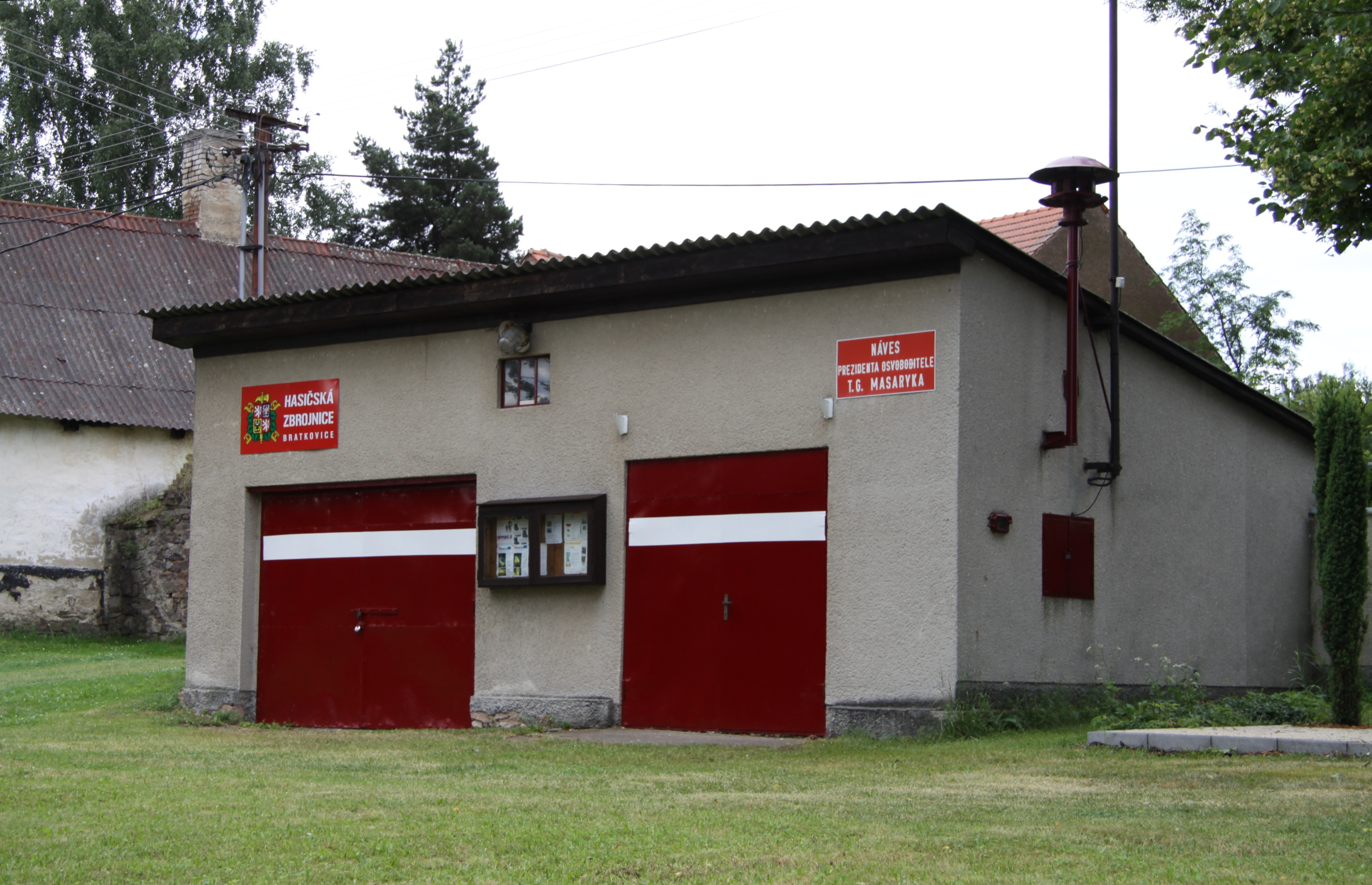 Bratkovice village in Příbram District, Czech Republic.